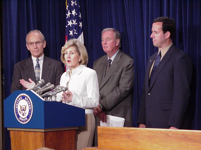 June 28, 2001 At a Capitol Hill press conference, Senators Rick Santorum, Frank Murkowski (R-AK), and Larry Craig (R-ID) listen in as Senator Kay Bailey Hutchison (R-TX) urges Majority Leader Tom Daschle to set a date for debate to establish a comprehensive energy plan for American families.